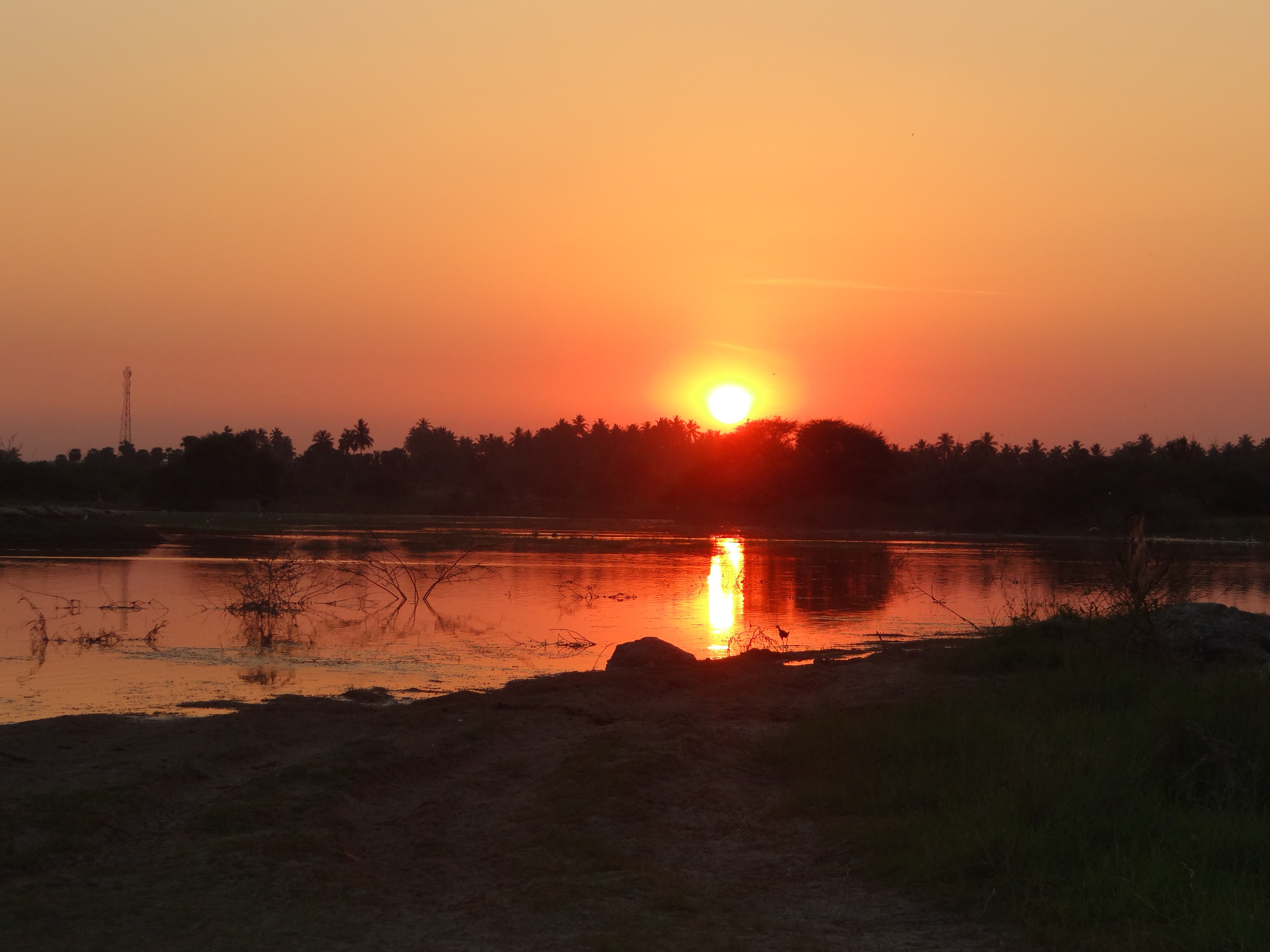 sunset at vellode bird sanctuary picture by Dr.shivram sagar